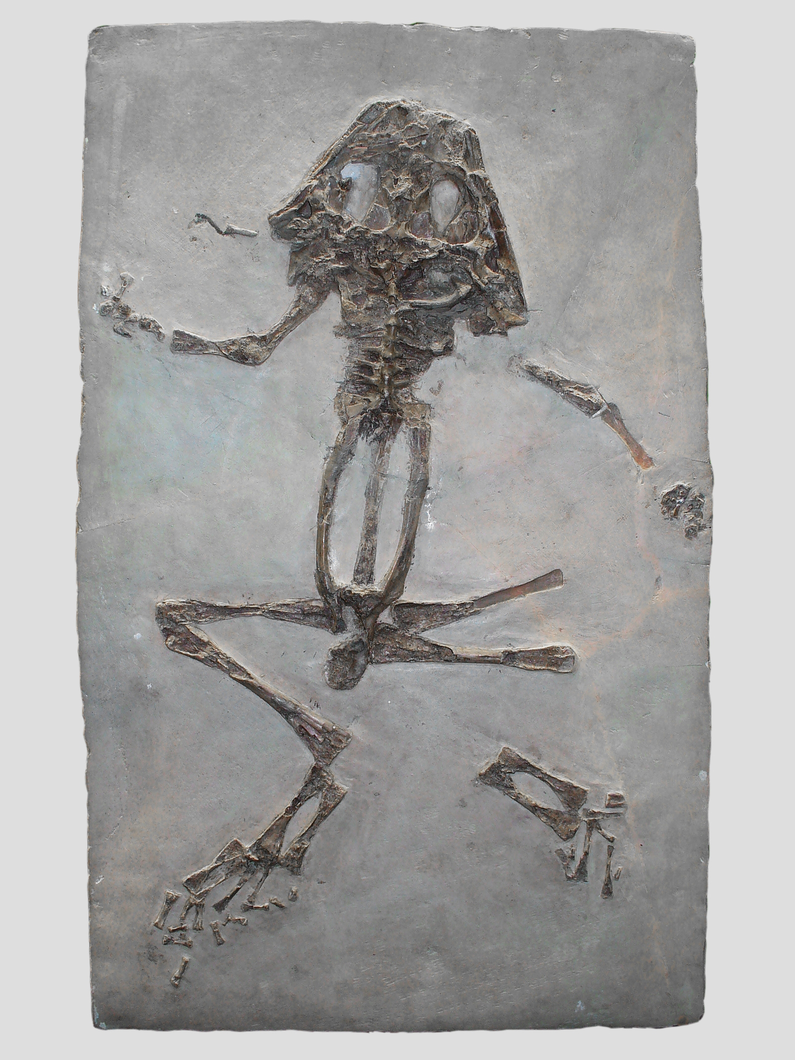 Latonia seyfriedi, Discoglossidae; Miocene, Öhningen layers, Öhningen, Germany; Staatliches Museum für Naturkunde Karlsruhe, Germany.